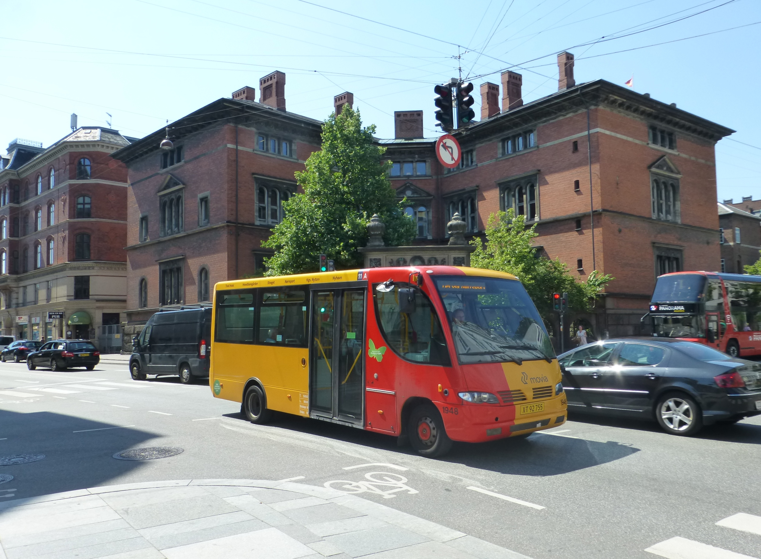 Movia bus line 11A on Stormgade at Vester Voldgade in Indre By in Copenhagen. The building behind is going to house the Museum of Copenhagen.